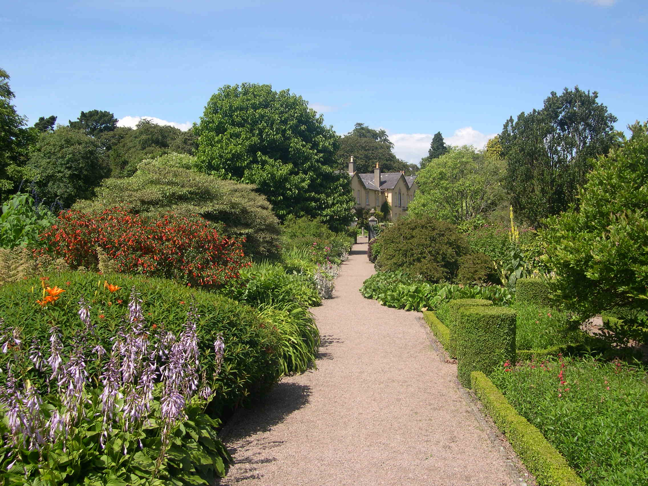 The Walled Garden at Rowallane Credit: A Peter Clarke image